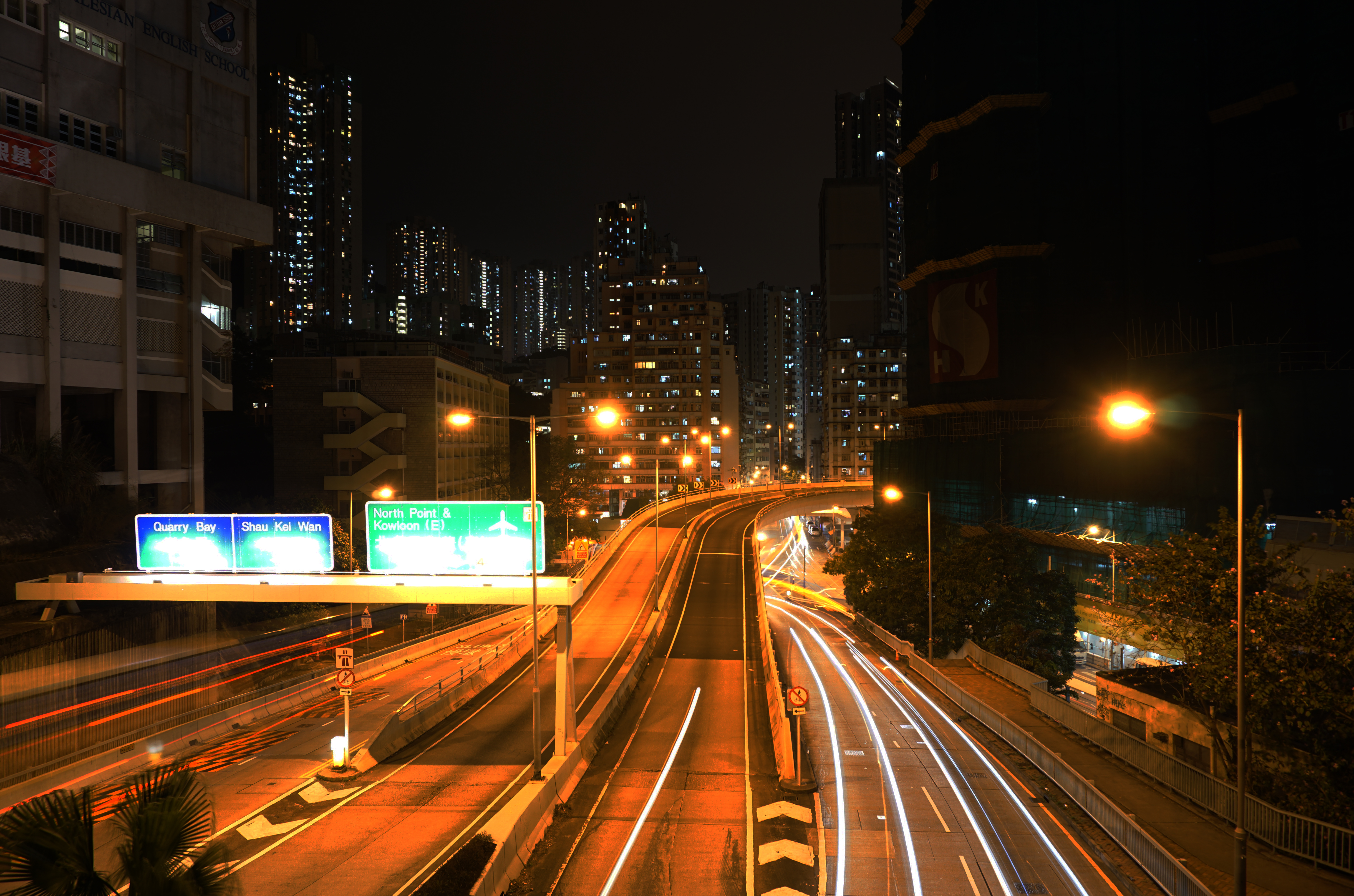 Chai Wan Road in Shau Kei Wan, Hong Kong.